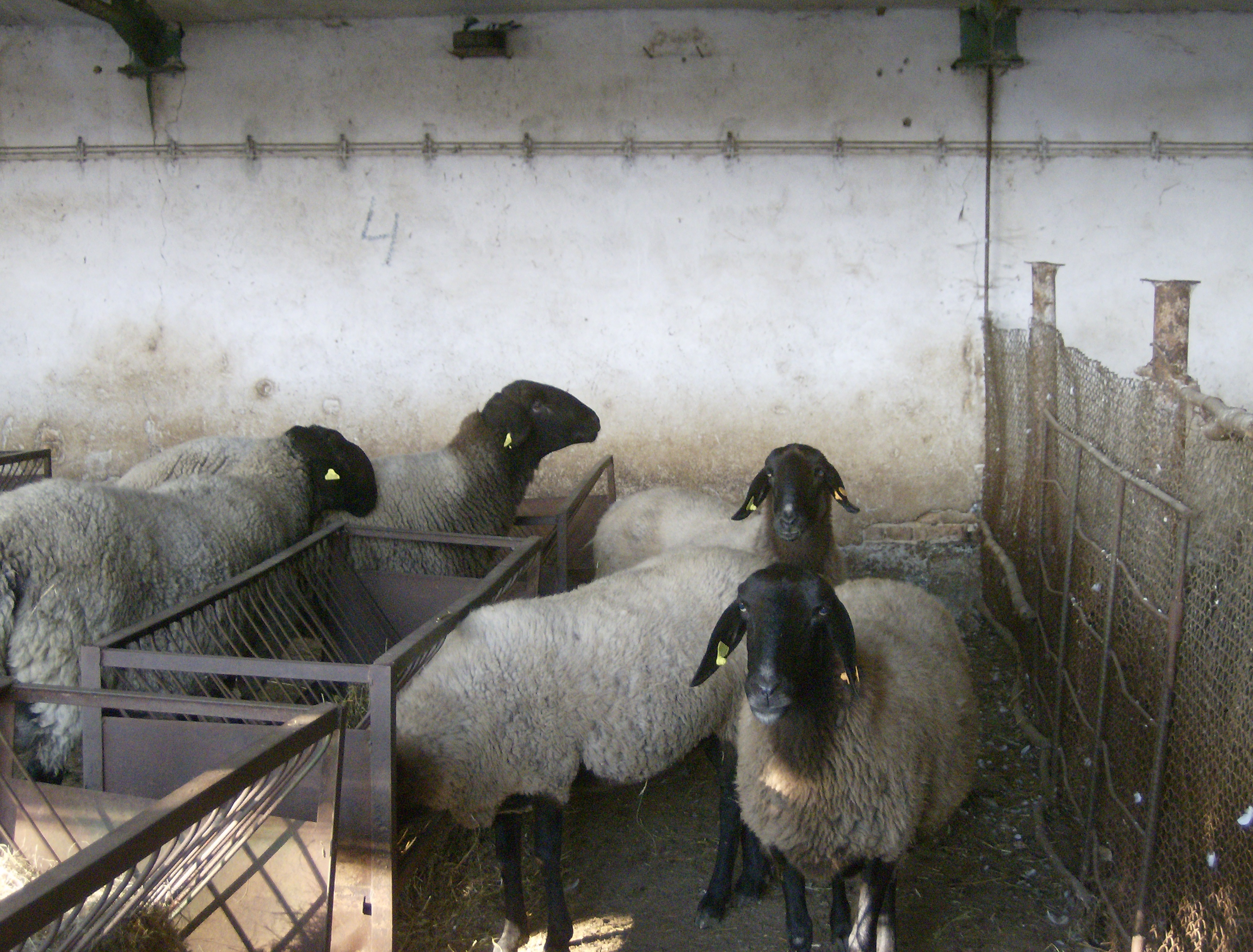 Blackhead Pleven Sheep